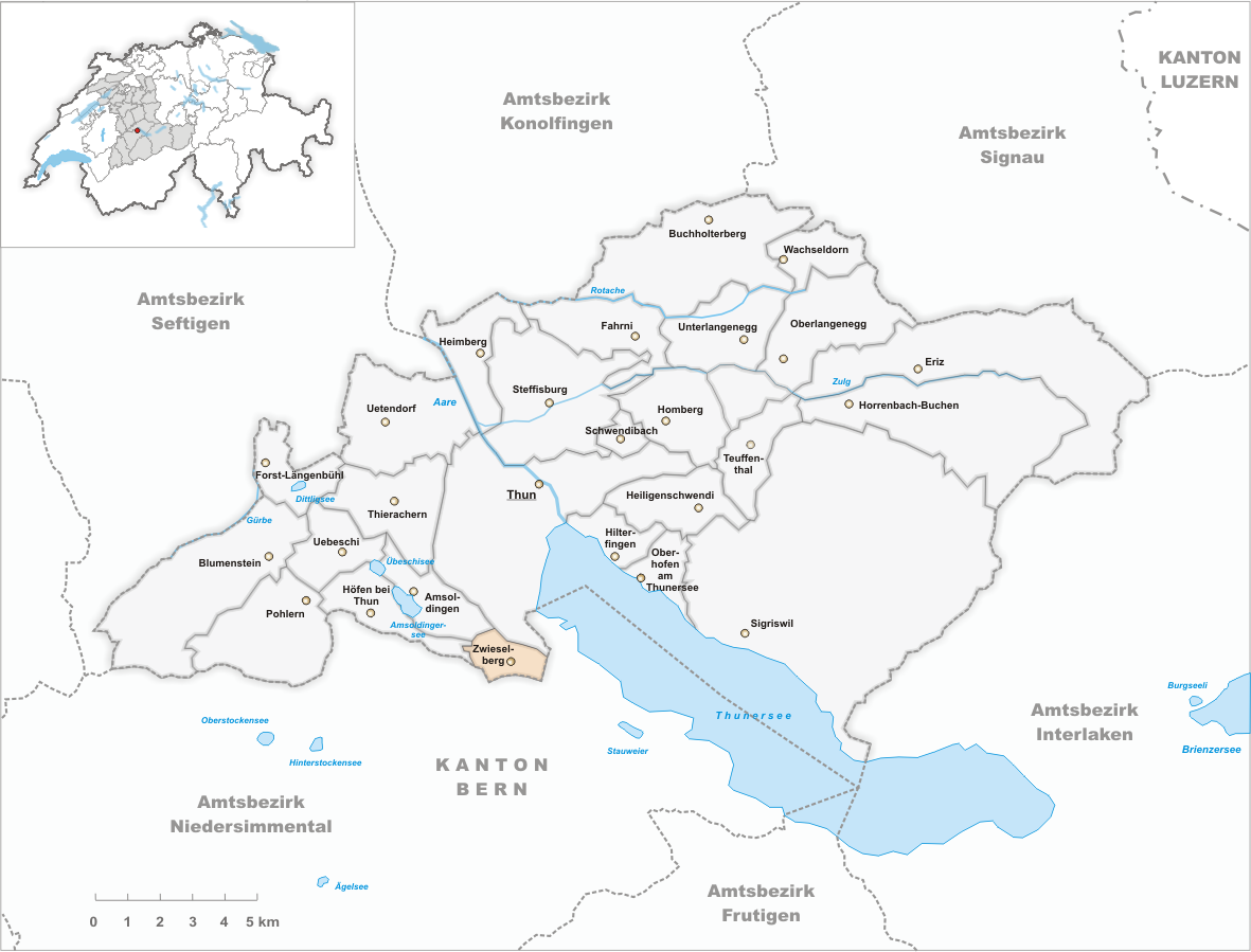 Municipality Zwieselberg